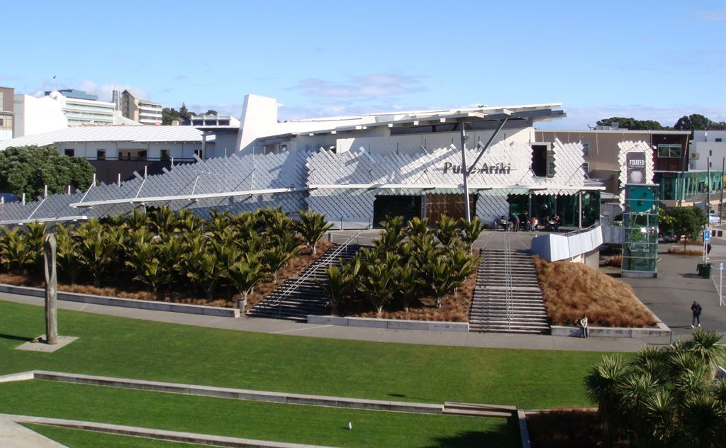 Puke Ariki museum and library, New Plymouth, New Zealand